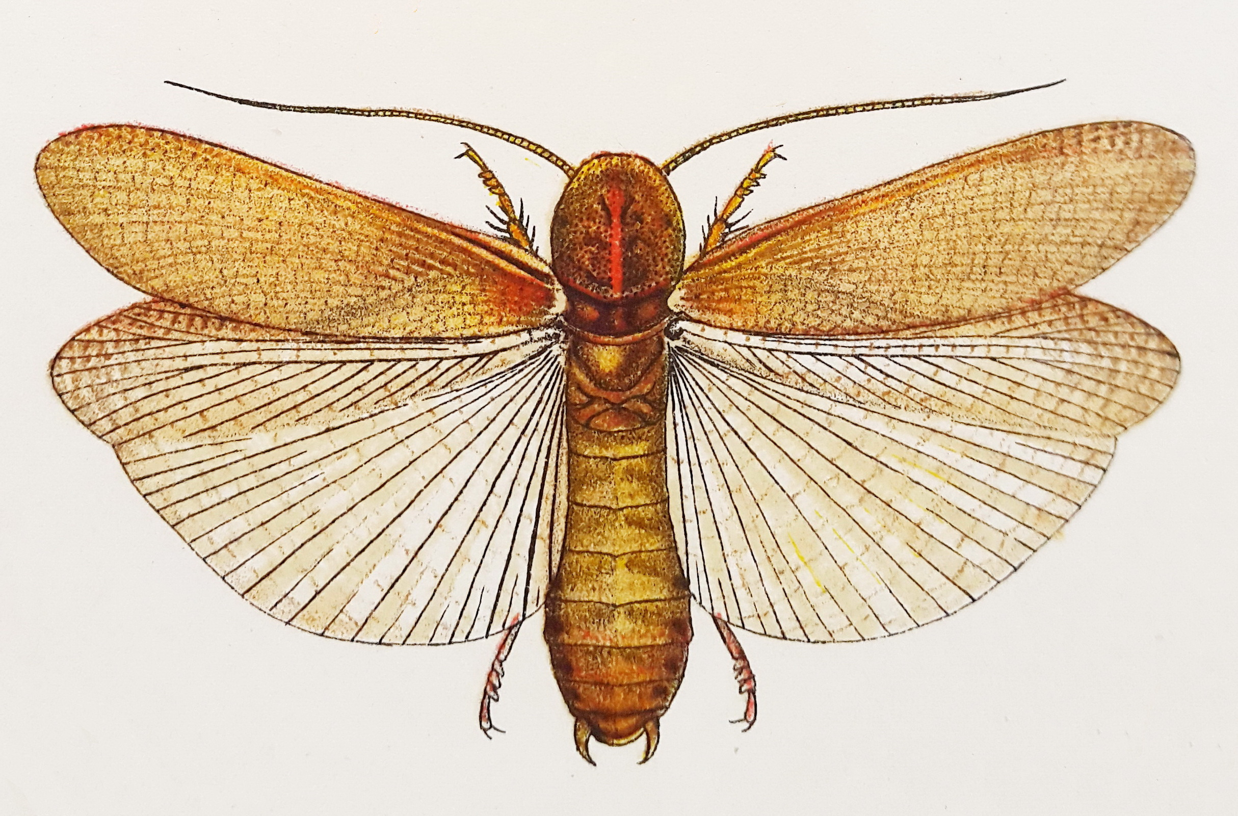 (Pronaonota cribrosa) = Pilema cribrosa (Saussure & Zehntner, 1895)